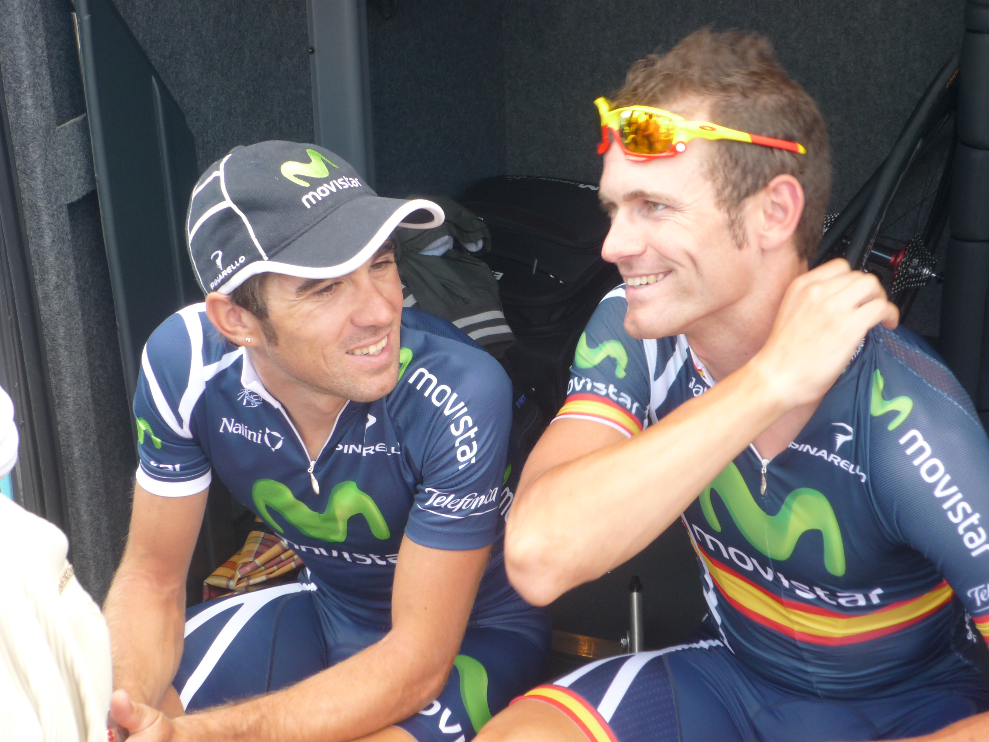 David Arroyo (left) and José Joaquín Rojas (right) during 21th stage of Tour de France 2011 Créteil-Paris